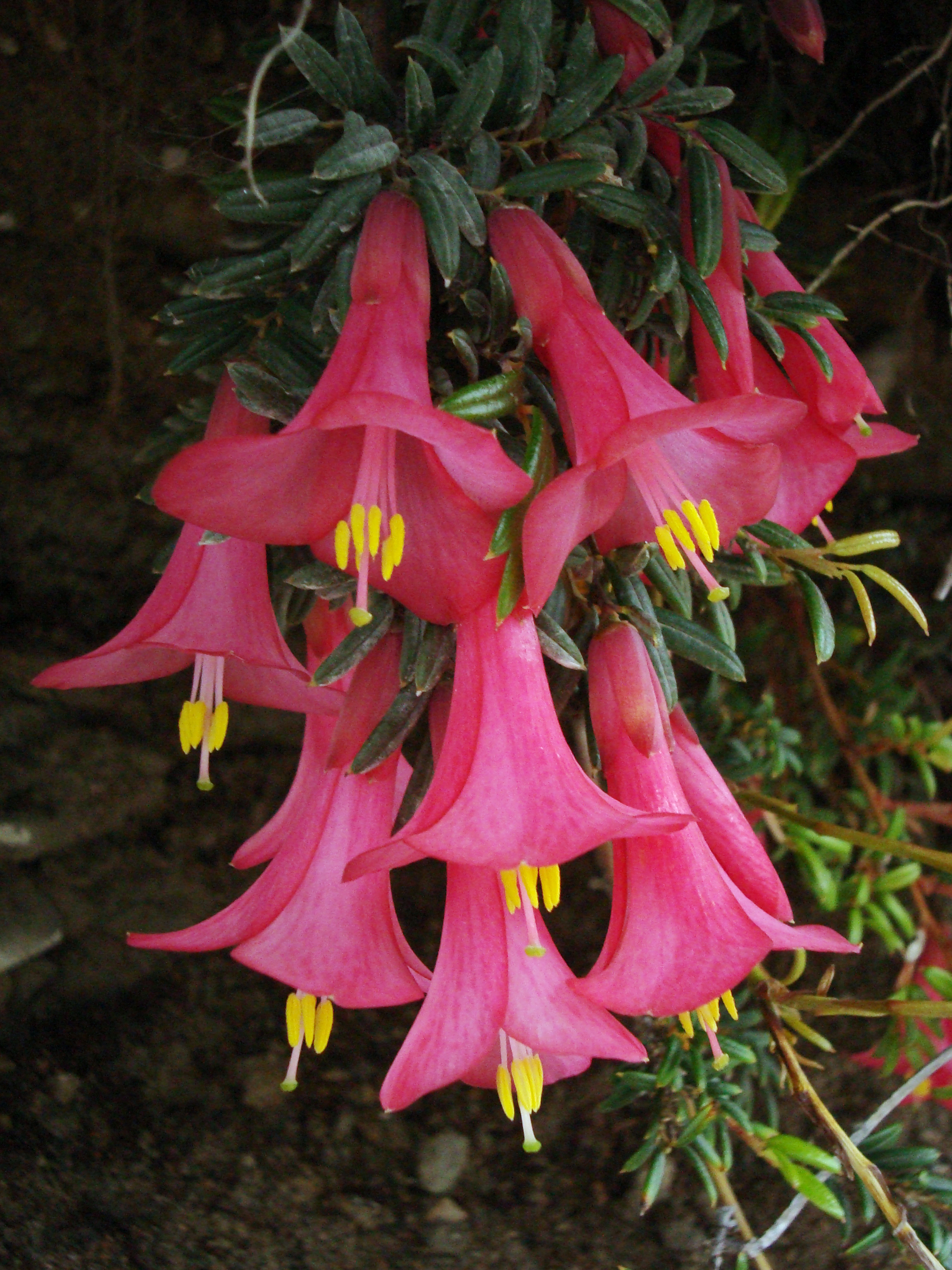 Philesia magellanica J.F. Gmel. Sorry, yet more photos of this emminently photogenic lily...